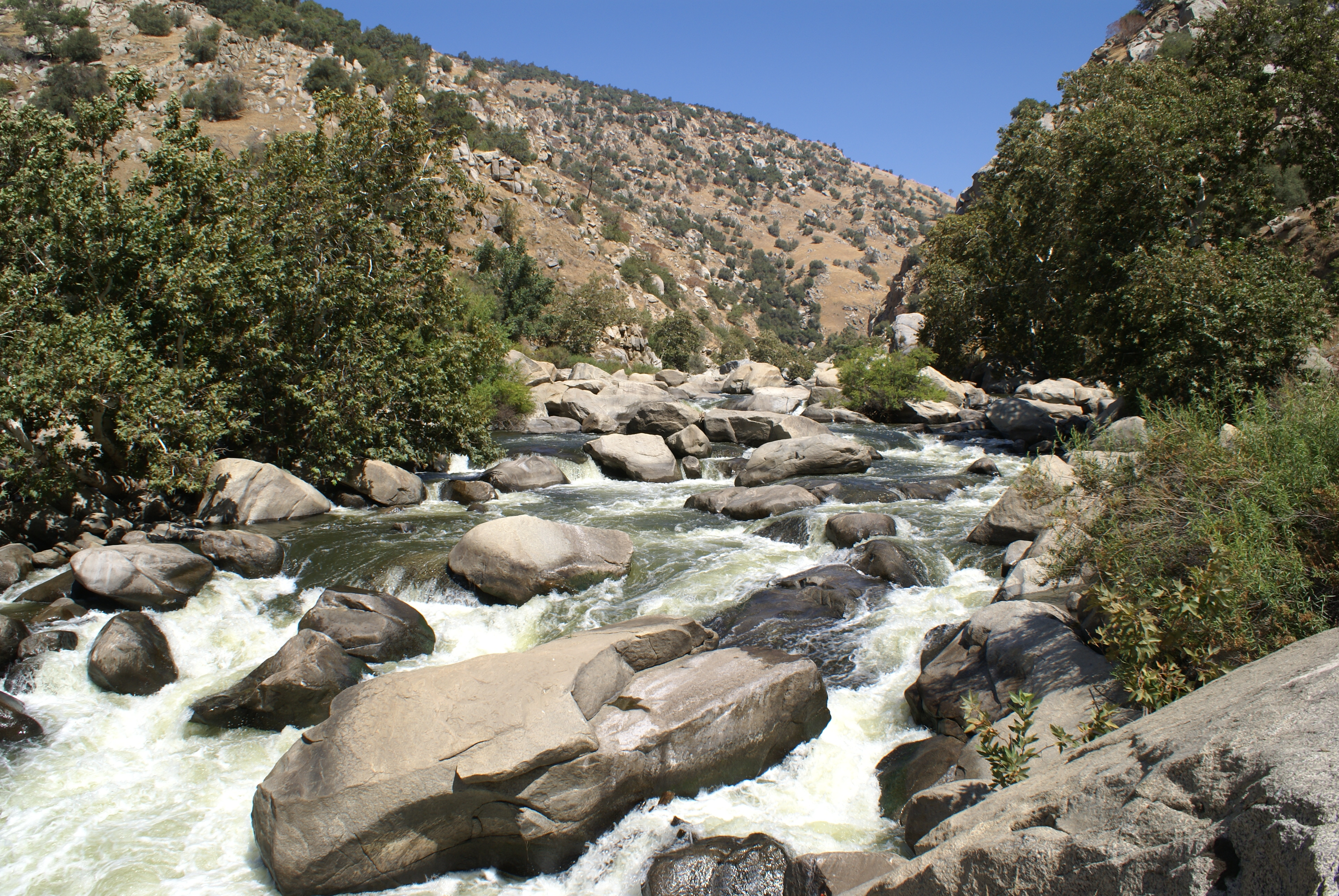 The Kern River and some of its rapids in the Kern Canyon, California, United States.